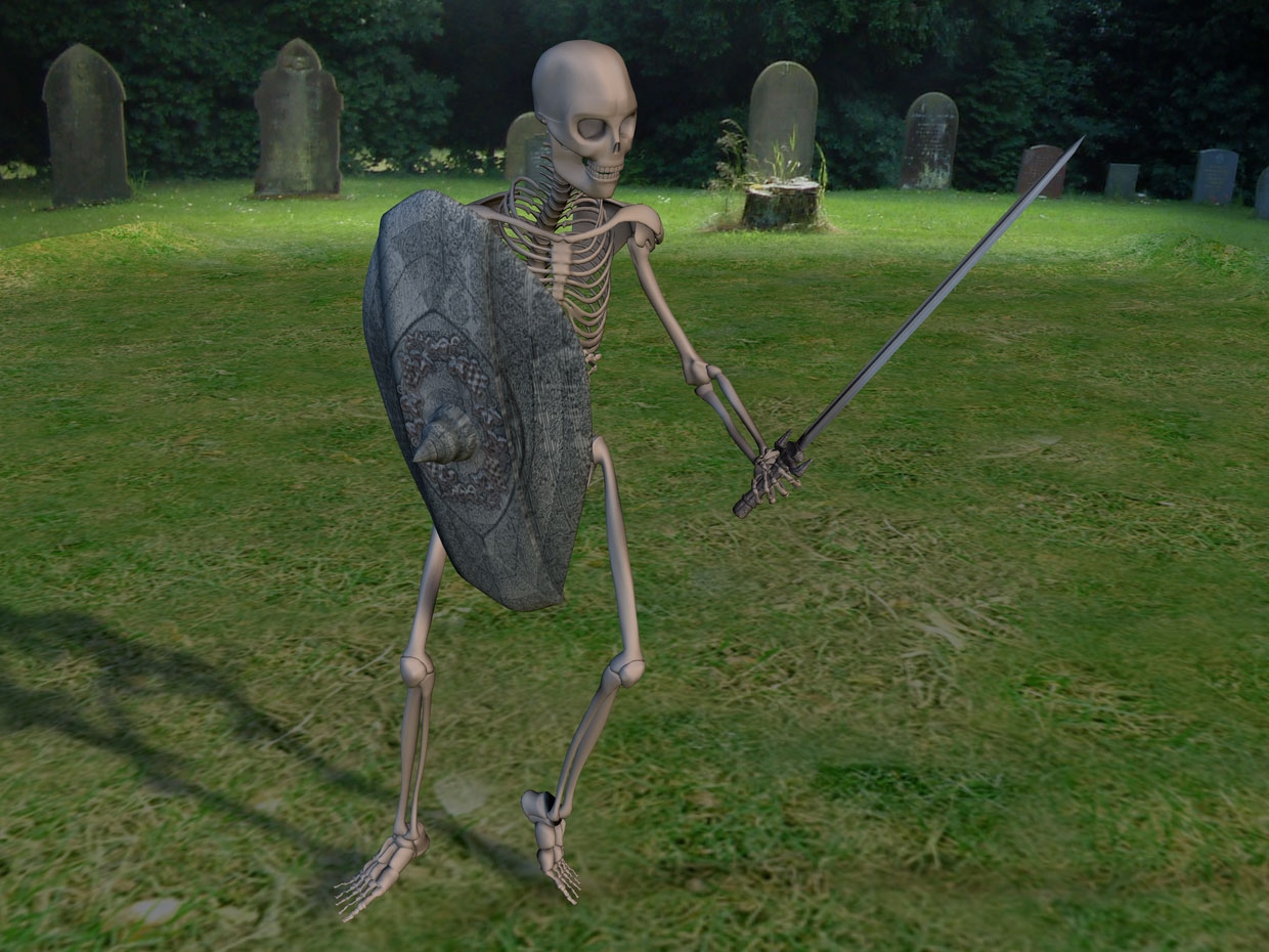 Skeleton Warrior, made by me with Daz|Studio